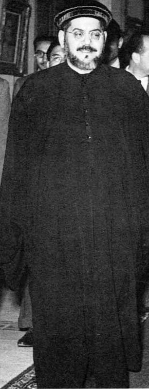 Professor Mahfouz visiting the coptic hospital Cairo